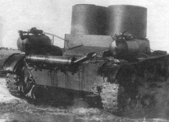 T-26 mod. 1931 with TKhP-3 tank chemical equipment for smoke screening